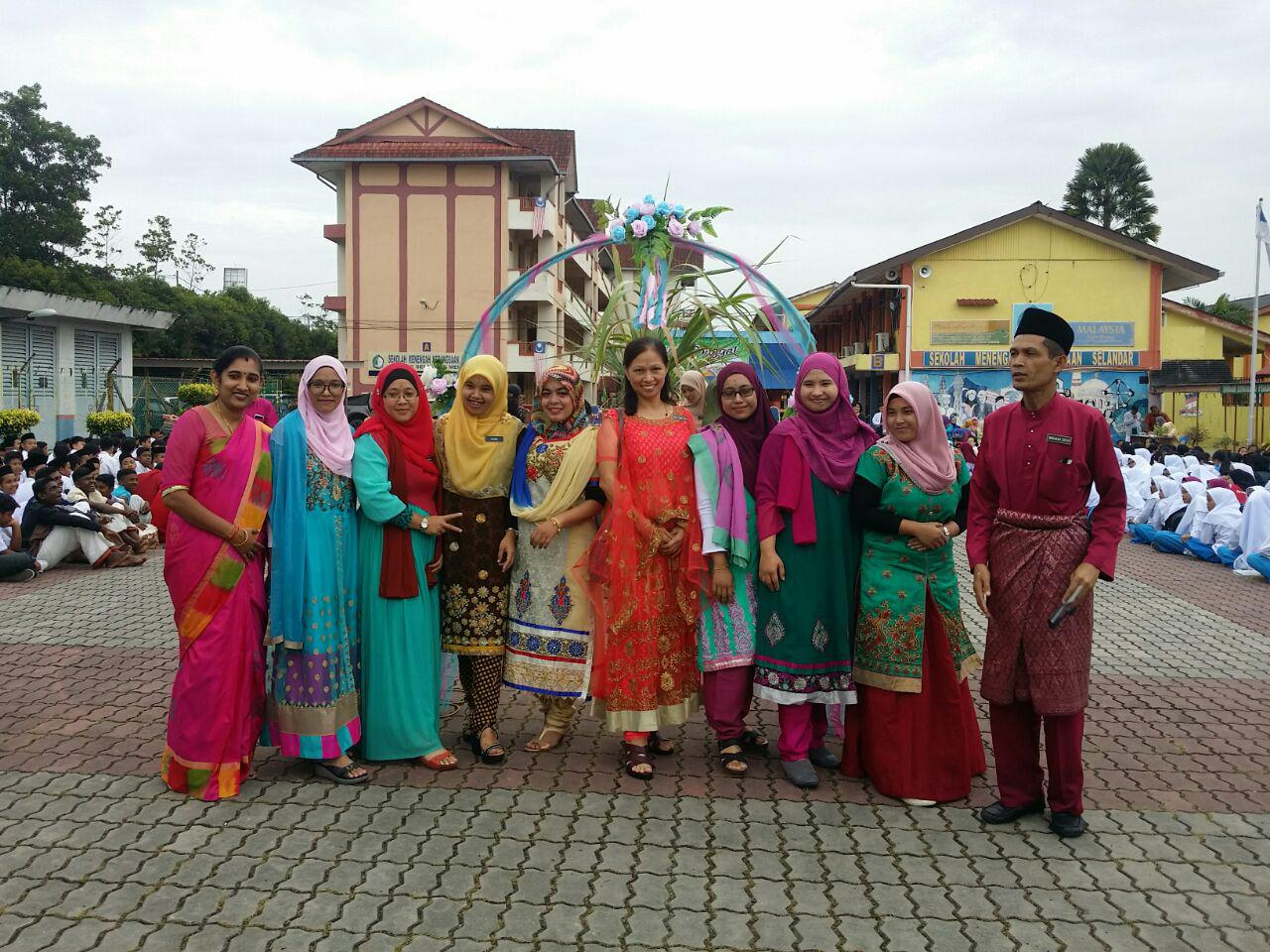 PONGGAL 4